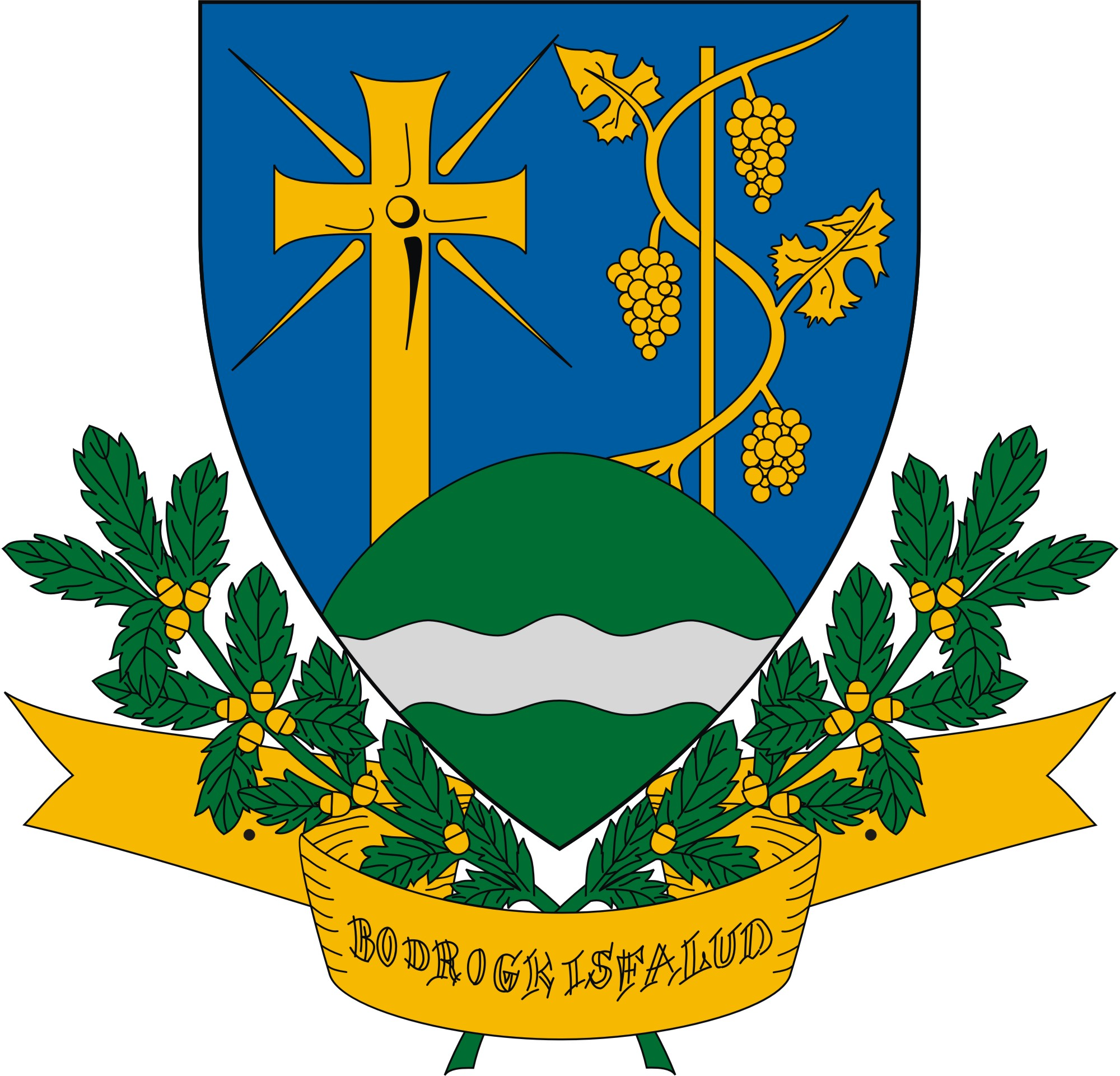 Coat of arms of Bodrogkisfalud, Hungary